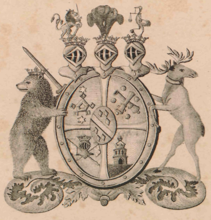 Coat of arms of finnish counts Mannerheim